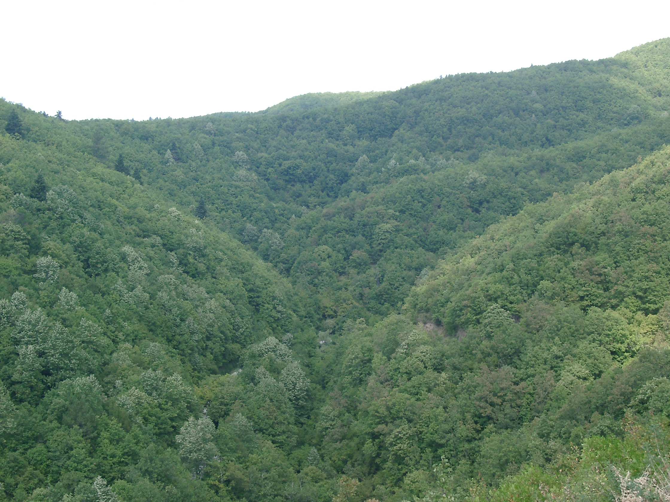 Green Hills at Zagorochoria region, Epirus, Greece